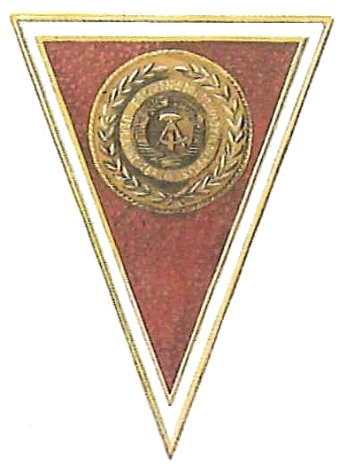 Graduates badge for officers of the GDR armed forces medical corps, those became medical specialists after аfurther special education at a high school or university of the GDR.